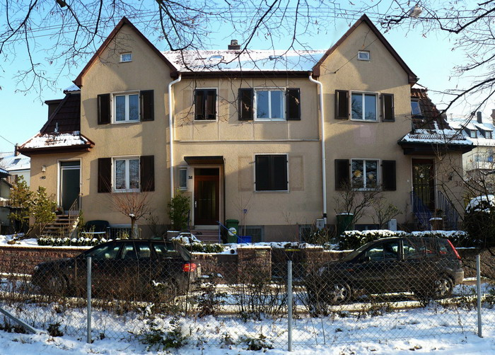 Typical house in Stuttgart-Luginsland by 1915